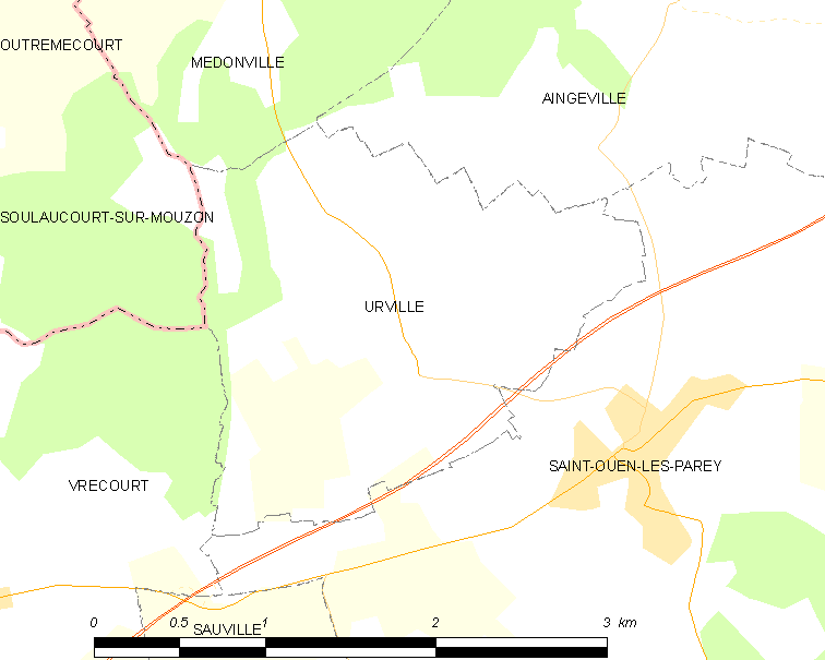 Map of French municipality Urville